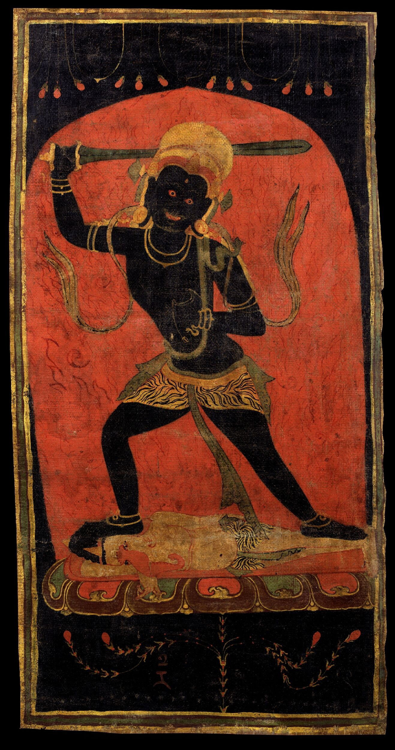 Arya Achala, Tibet, 12th century, Kadam Lineage, Collection of Shelley & Donald Rubin